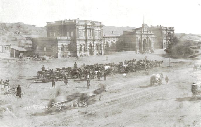 Tbilisi: Railroad station Image Title: Tiflis. Vokzal. A.Roinov. Alternate Title: Tbilisi: Railroad station